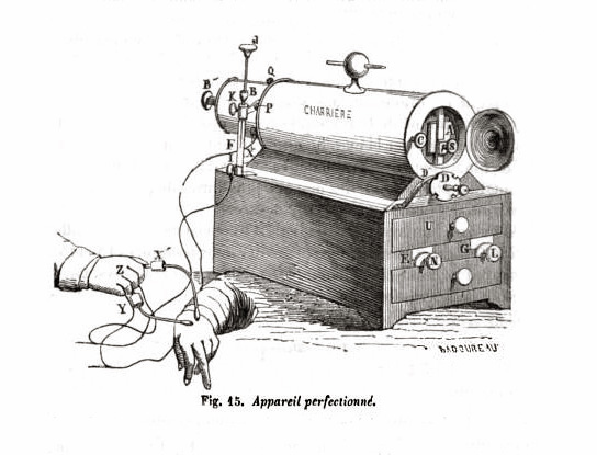 Woodcut illustration from "De l'électrisation localisée et de son application a la pathologie et a la thérapeutique" by Duchenne.